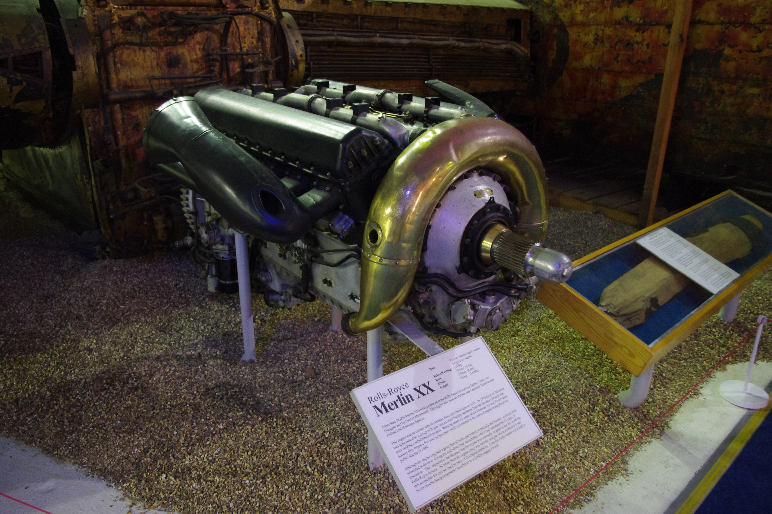 Rolls-Royce Merlin XX engine, at the Royal Air Force Museum London.